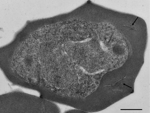 A transmission electron micrograph of a human red blood cell infected with Plasmodium falciparum (strain NF54). Arrows point to Maurer's clefts. Scale bar (bottom right) indicates 500nm in length.